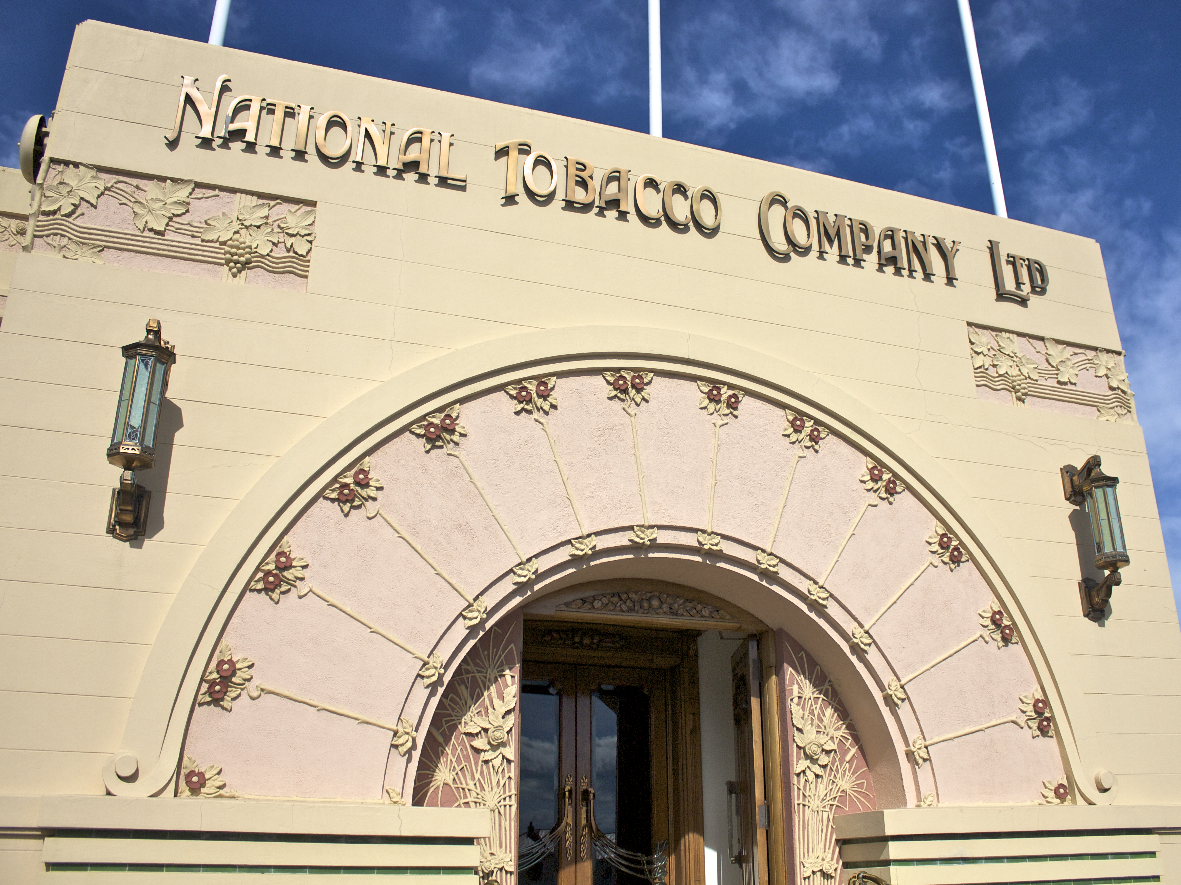 Taken on an Art Deco tour of Napier, New Zealand, March 2010. National Tobacco Company Building Napier was largely destroyed by an earthquake in 1931 and subsequently rebuilt in the Art Deco style. Now preserved and maintained it has one of the largest concentrations of Art Deco architecture in the world and has been nominated for World Heritage Site status. Wikipedia.